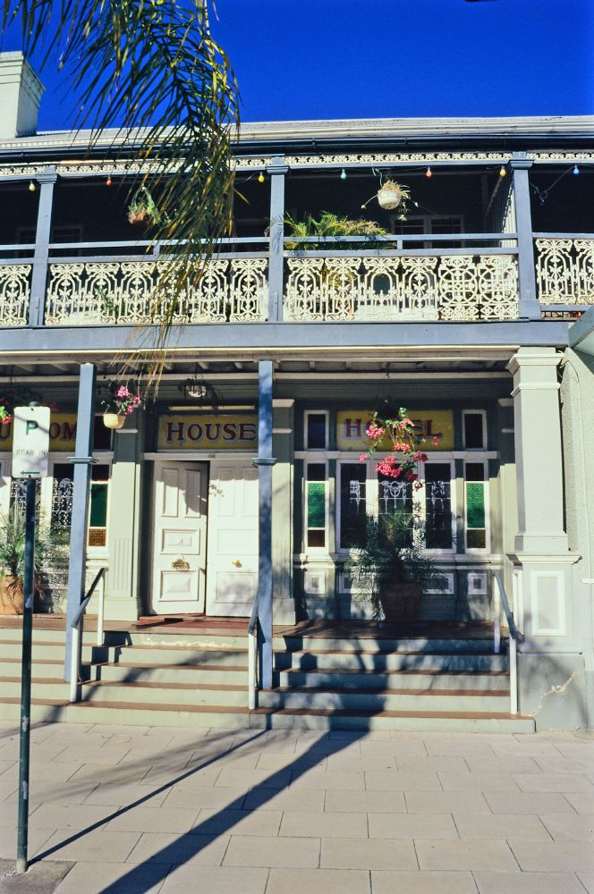 Customs House Hotel (1997)